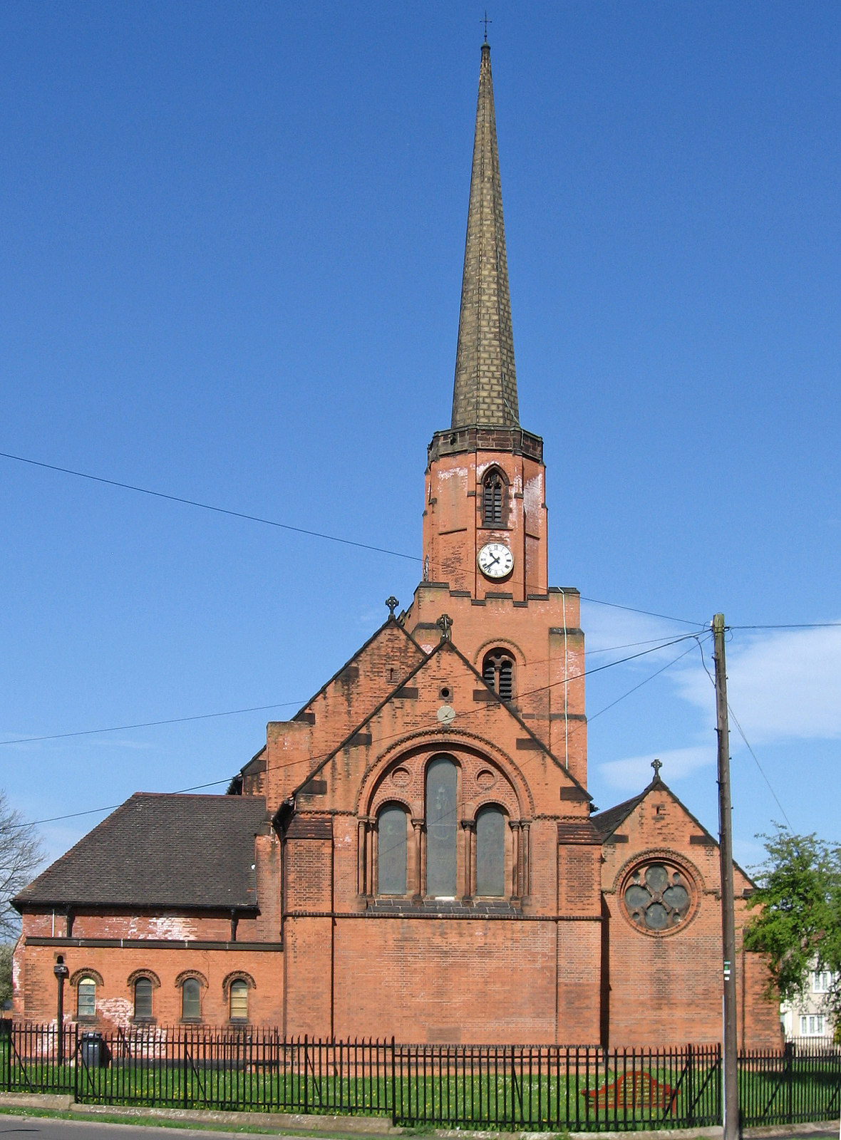 All Saints' parish church, Woodlands, South Yorkshire, seen from the southeast